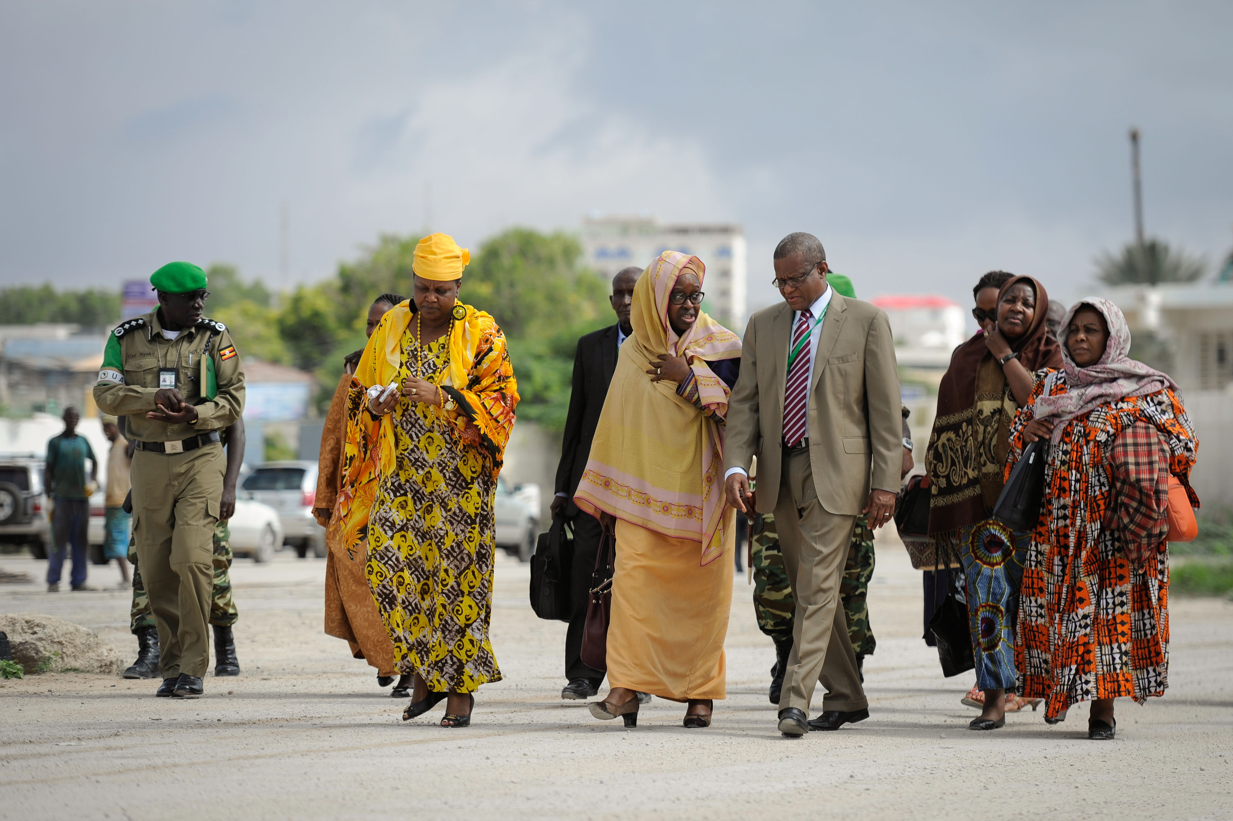 The Special Envoy on Women, Peace and Security of the Chairperson of the African Union Commision, Bineta Diop , walks with the Special Representative of the Special Representative of the Chairperson of the African Union Commission (SRCC) for Somalia, Ambassador Maman S. Sidikou, at Mogadishu's Aden Adde airport in Somalia on November 25. The Special Envoy on Women, Peace and Security of the Chairperson of the African Union Commision, Bineta Diop, landed in Somalia today to begin a two day visit in which she will meet with both government and African Union officials to discuss women's issues in the country. AMISOM Photo / Tobin Jones